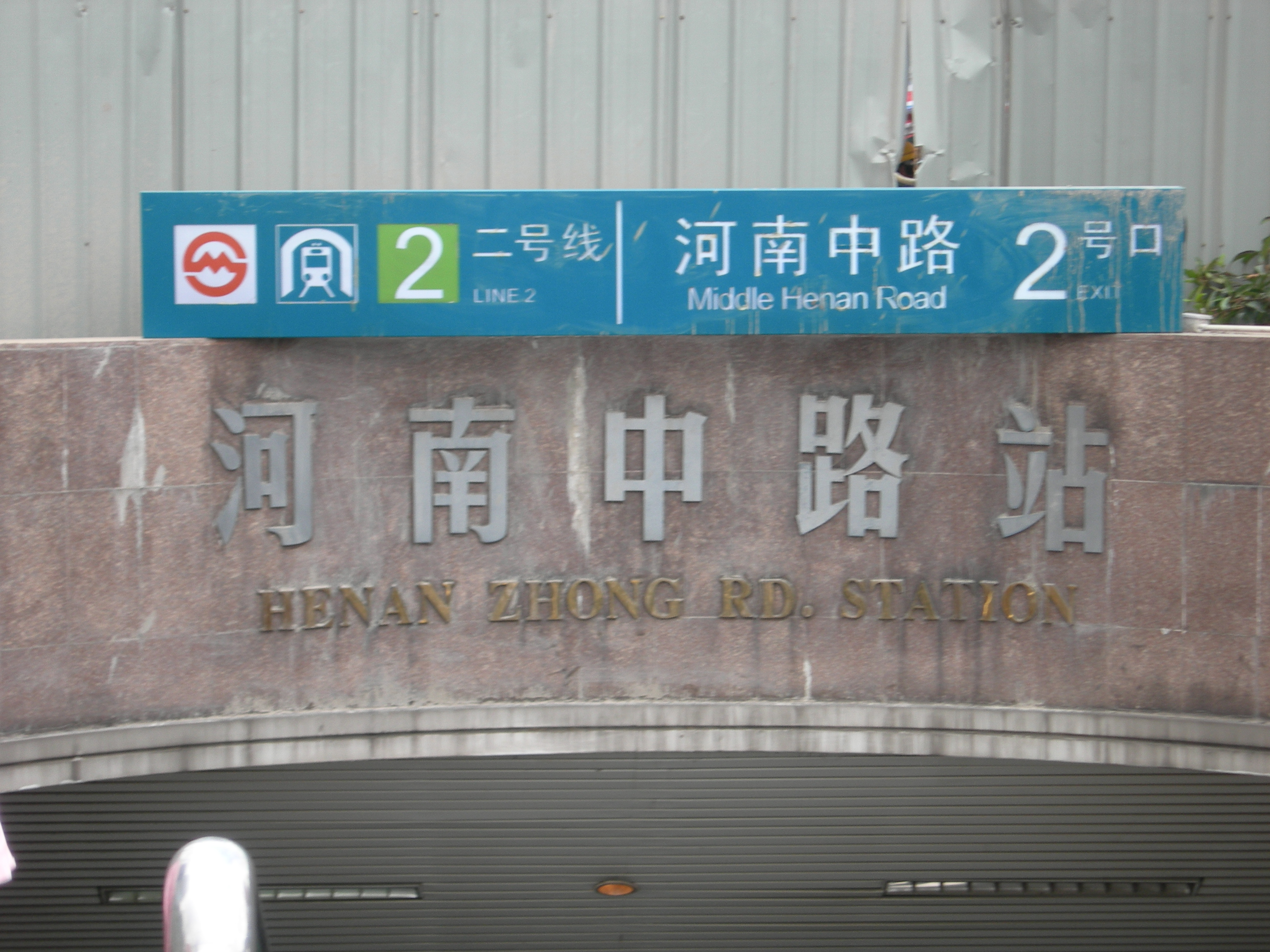 Entrance 2 of the Middle Henan Road Station of the Shanghai Metro Line 2: The station is now known as East Nanjing Road.